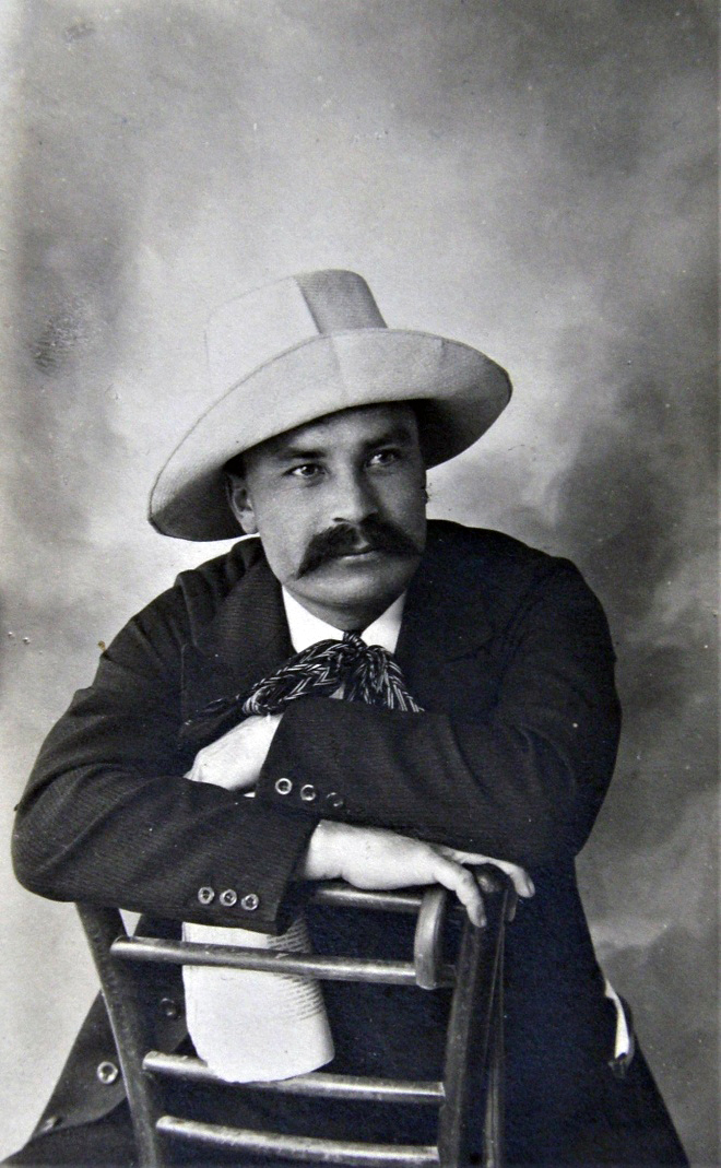 Second President of Ukraine (1918-1919) Volodymyr Vynnychenko (born 1880 - died 1951).